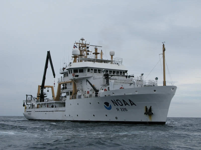 The National Oceanic and Atmospheric Administration fisheries and oceanographic research ship NOAAS Pisces (R 226) seen from her rescue boat